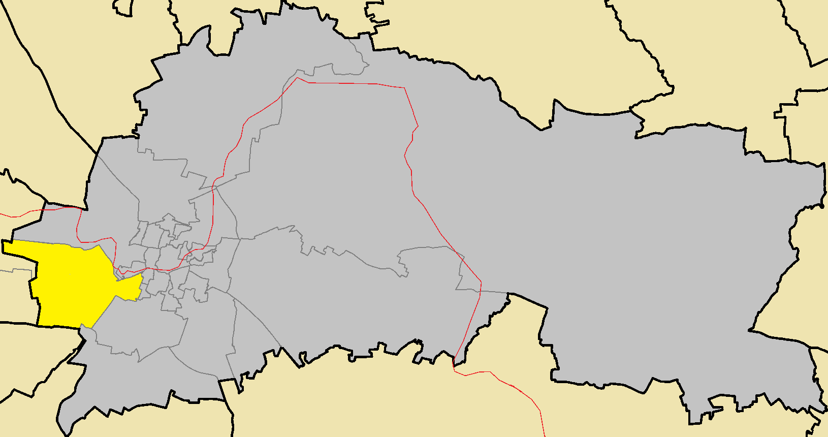 Ayios Andreas in Nicosia Municipality.